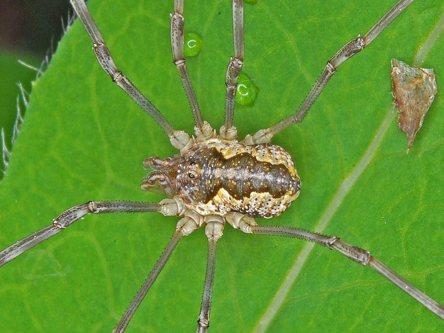 Mitopus morio. Val Veny, Aosta, Italy